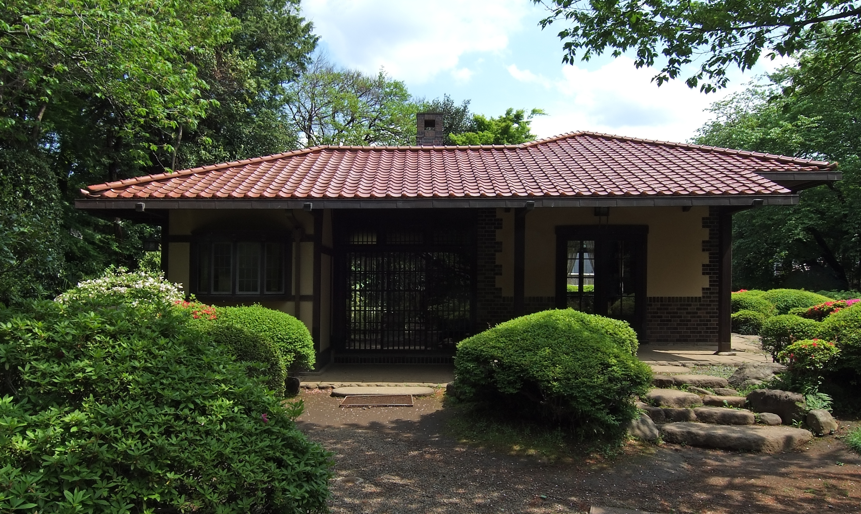 Bankoro, at Kita-ku Tokyo Japan, designed by Junkichi Tanabe in 1917.